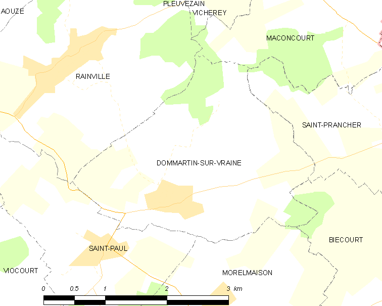 Map of French municipality Dommartin-sur-Vraine